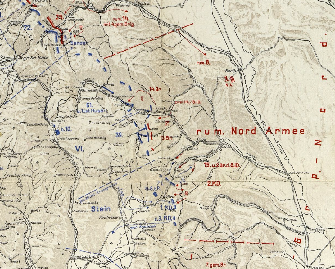 Romanian Front in WWI - The operations on the Romanian Northern Army: October 15-November 2, 1916